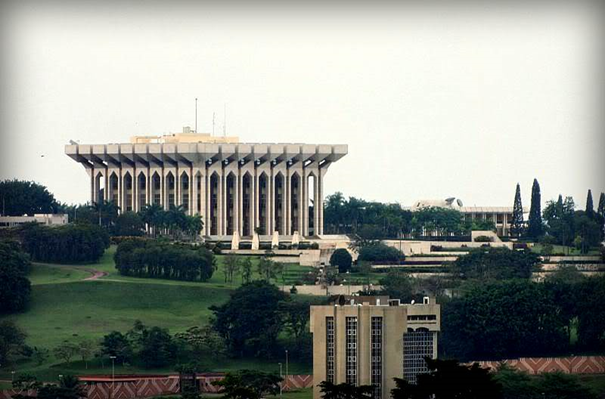 Yaoundé Unity Palace - Presidency (en), Palais de l'Unité de Yaounde - Présidence (fr)